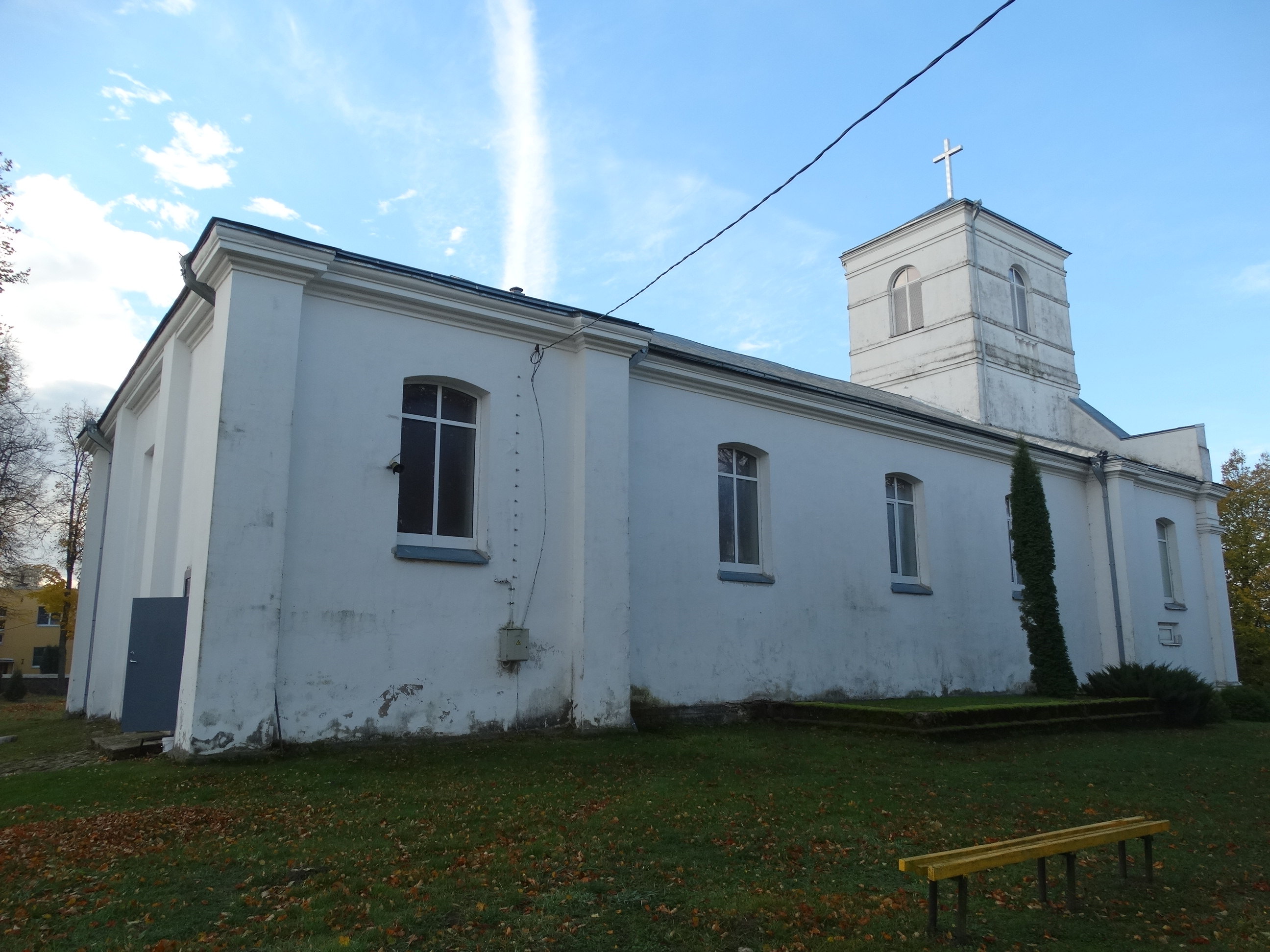 Roman Catholic Church, Seirijai, Lithuania